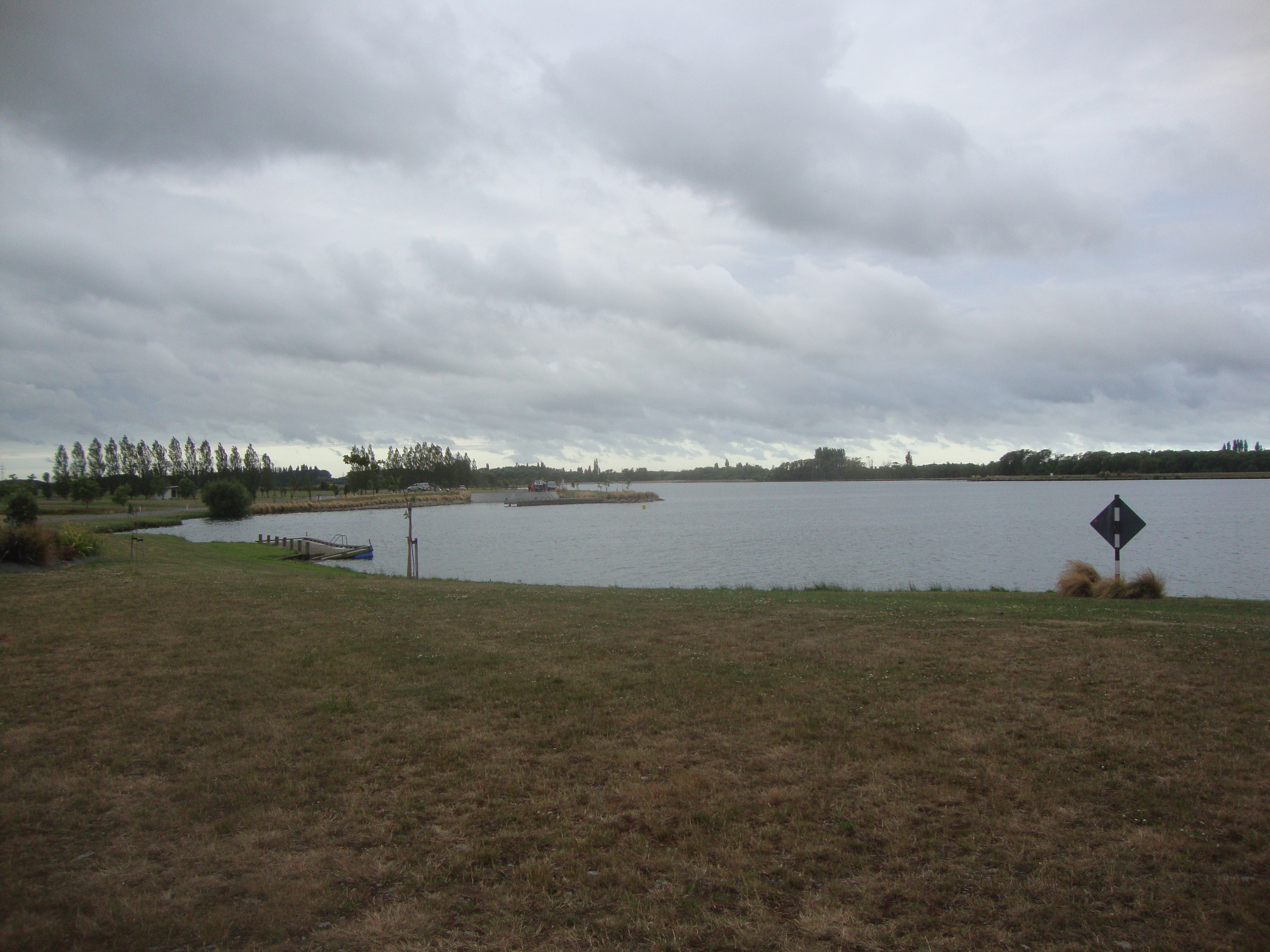 Lake Hood near Ashburton in 2012.